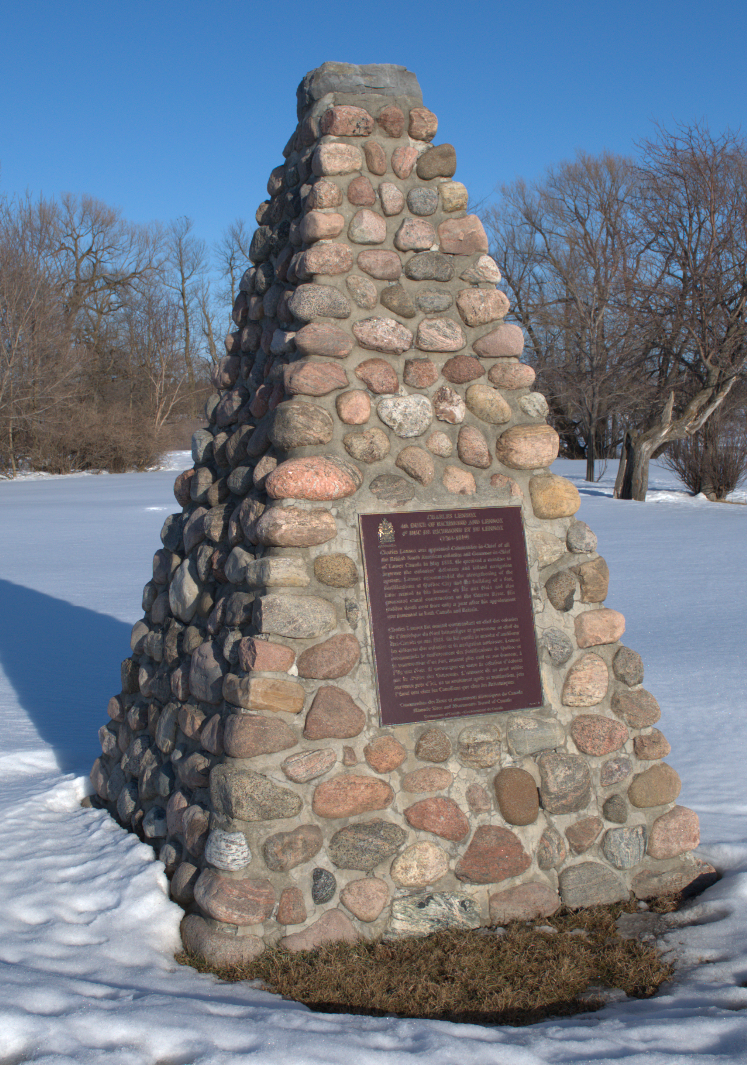 This cairn marks the approximate location of the dukes death.